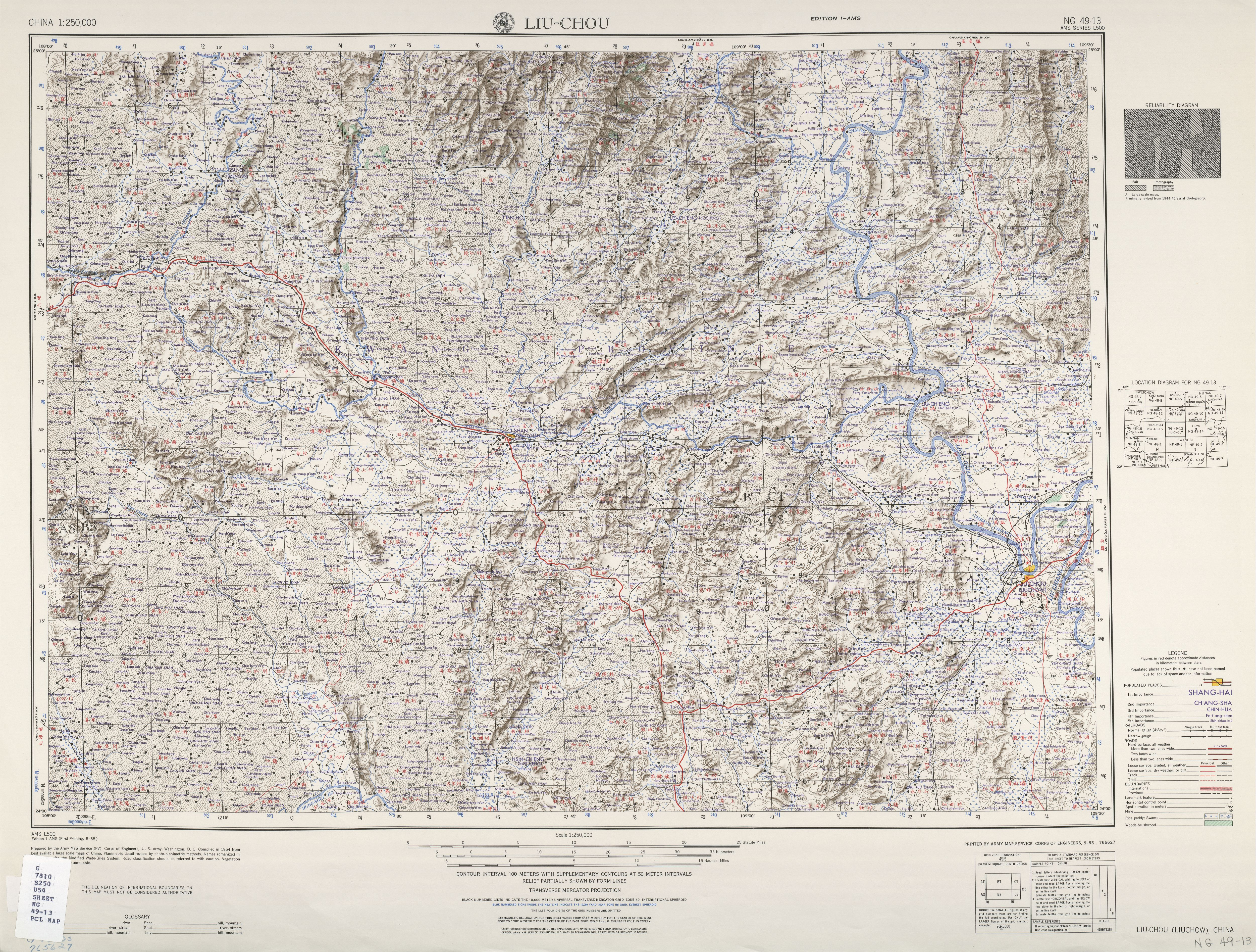 China AMS Topographic Maps